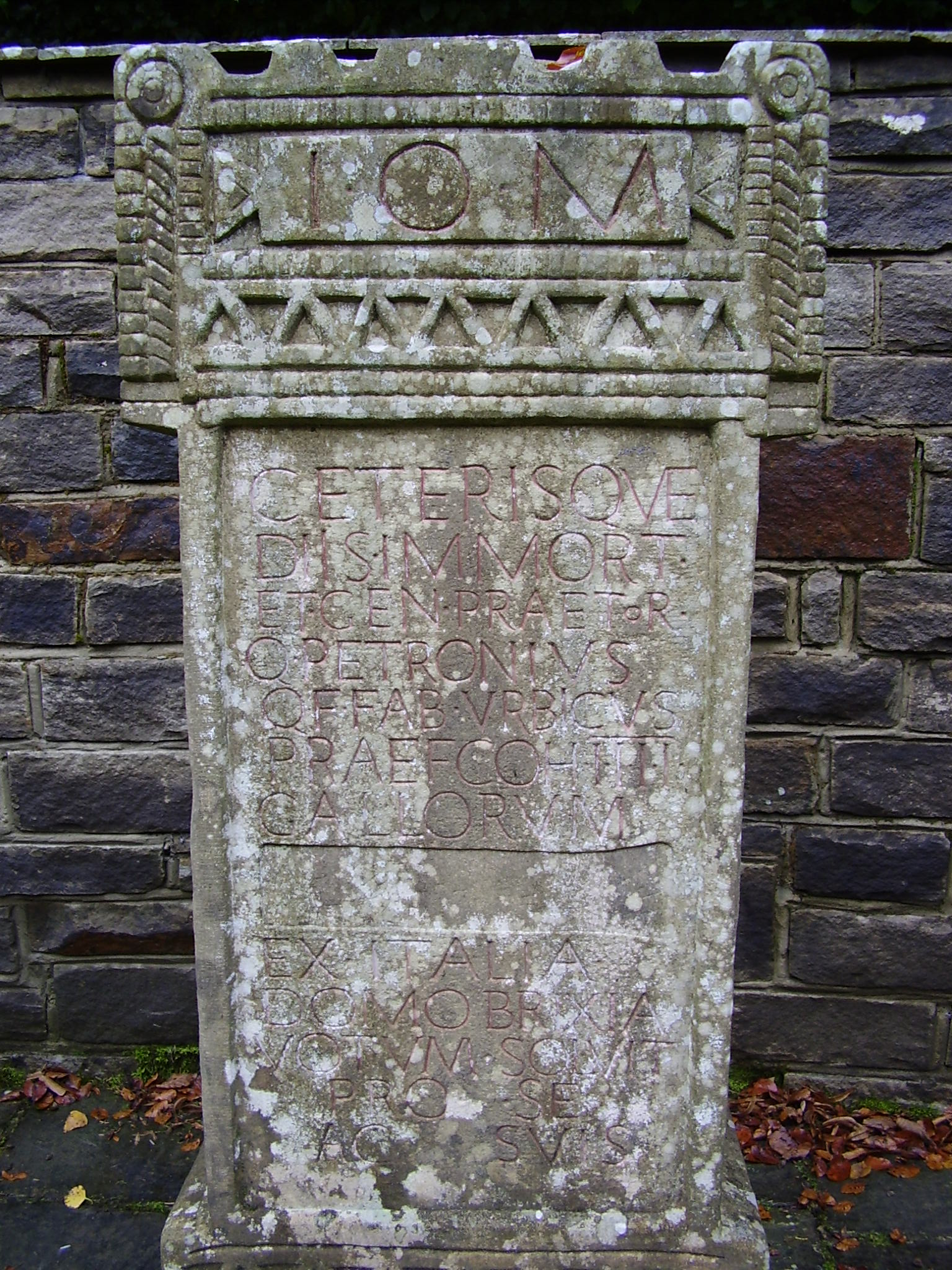 One of many inscriptions found at Vindolanda.